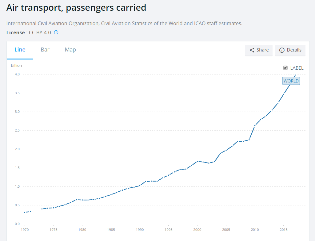 Air transport, passengers carried, 1970-2017